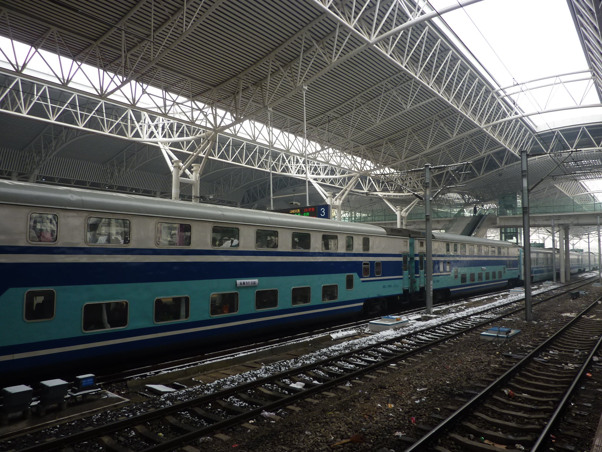 Tracks and platforms of Hefei Train Station. Signs on the train say, "Hangzhou-Fuyang".